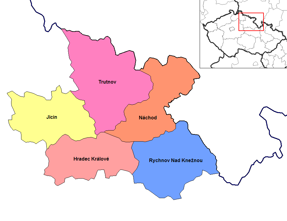 Map of the districts of Hradec Kralove region of the Czech Republic. Created by Rarelibra 15:08, 2 January 2007 (UTC) for public domain use, using MapInfo Professional v8.5 and various mapping resources.